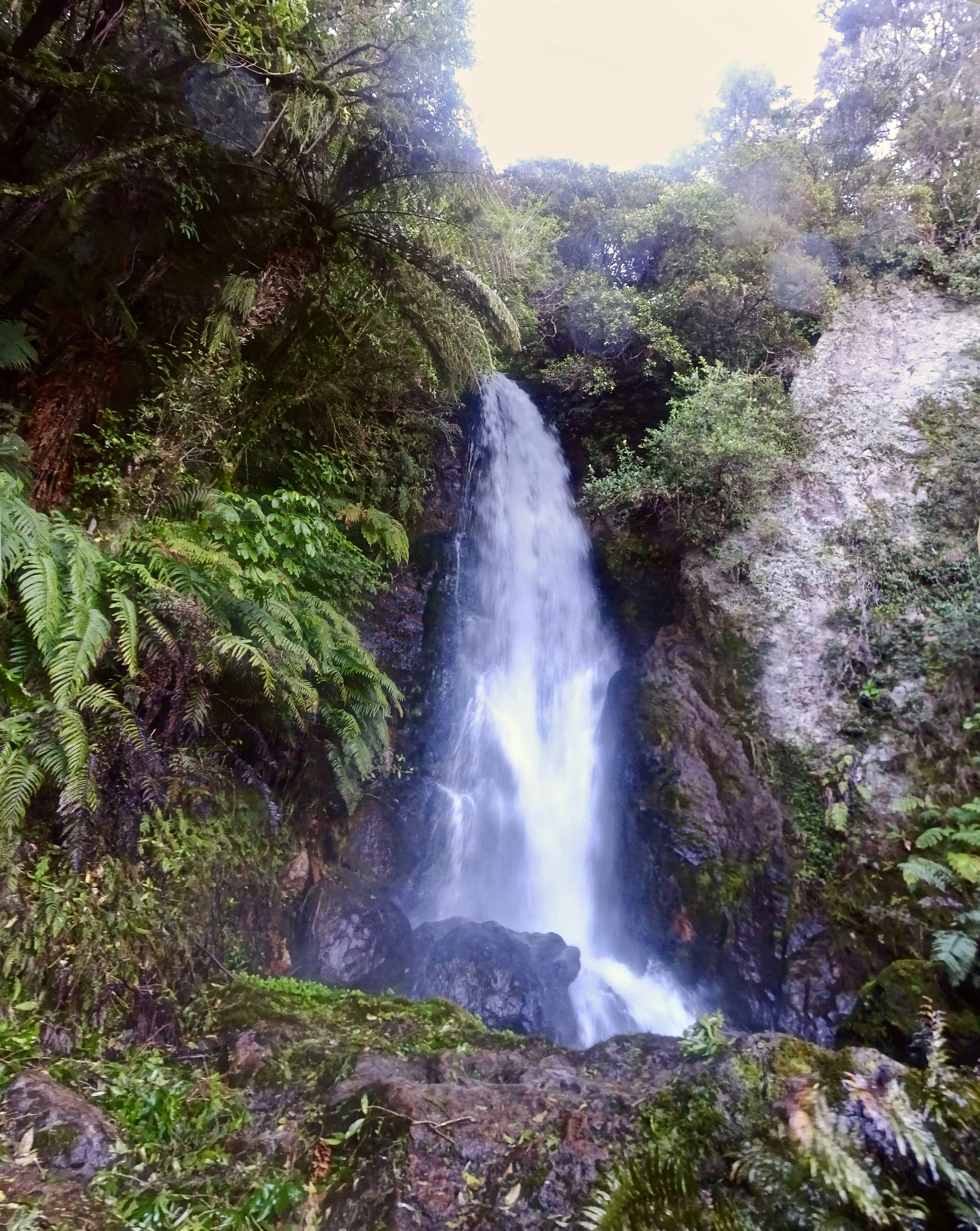 The upper fall is almost 30 m (98 ft)